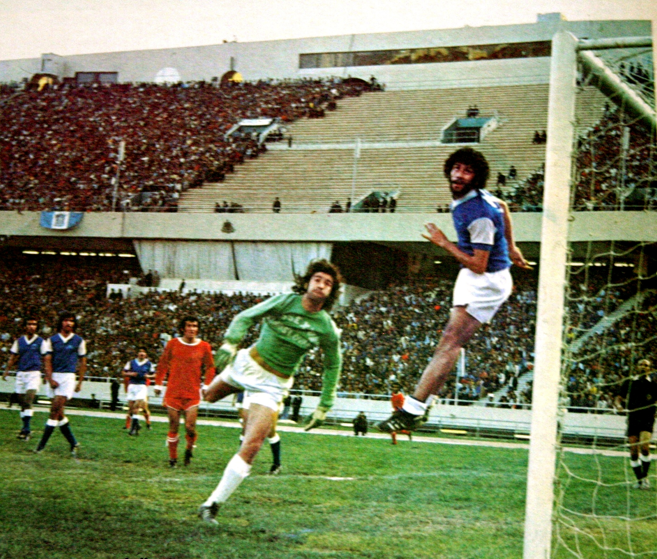 TAJ defender Saeed Baghvardani comes to the rescue of goalkeeper Naser Hejazi when he heads out a humdinger by Persepolis striker Safar Iranpak (fourth left). Aryamehr [Azadi] Stadium, Tehran, May 1975.